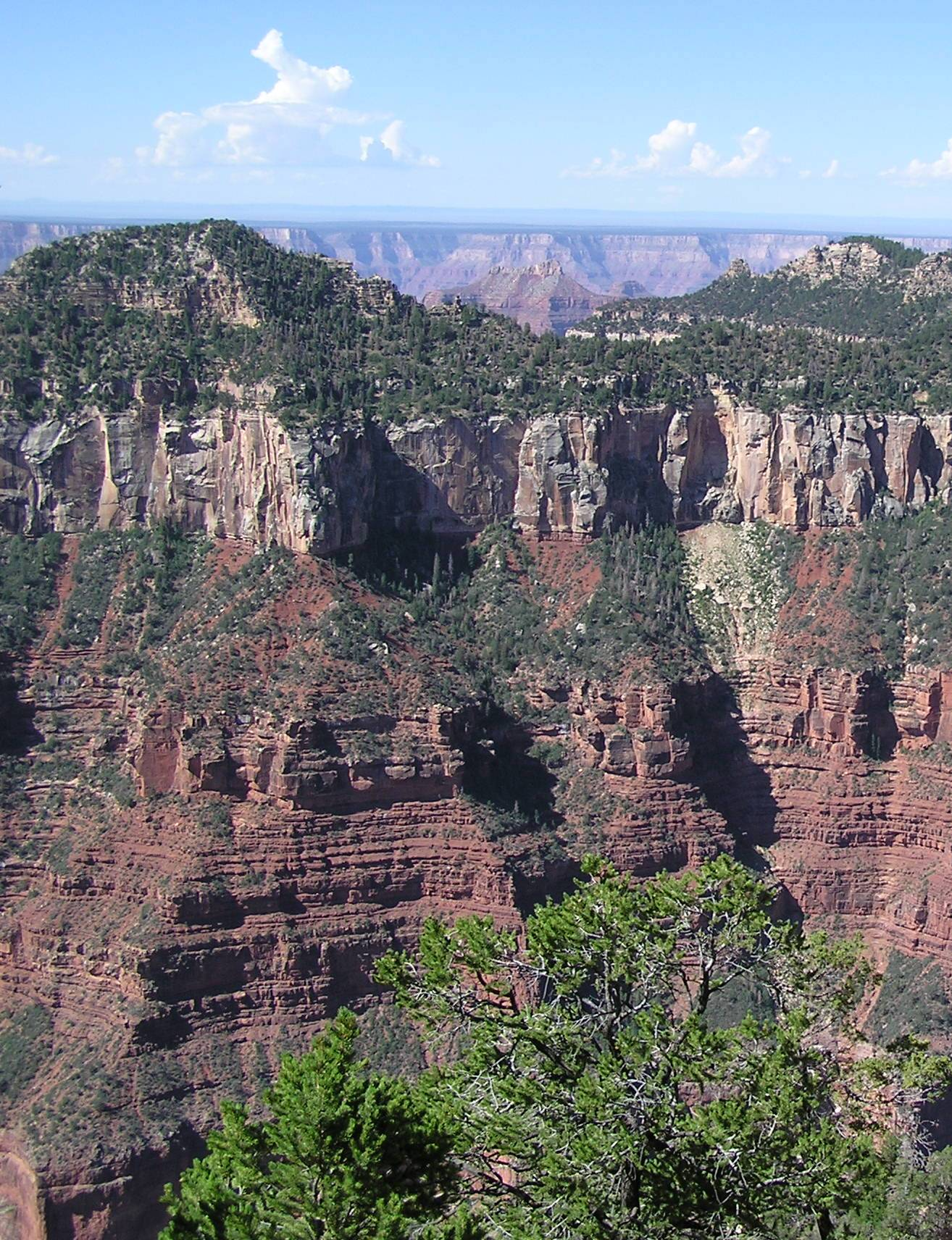 Grand Canyon North Rim backcountry.